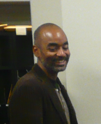 Robert Reid Pharr at the CUNY grad center